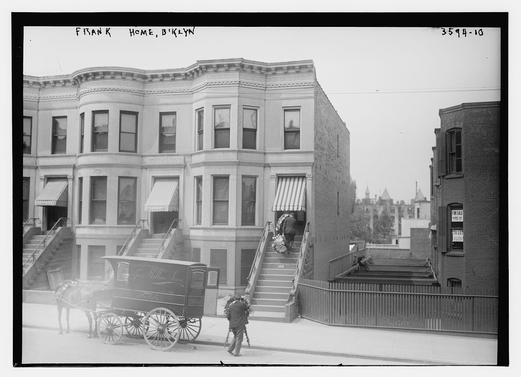 Leo Frank home in Brooklyn, New York on August 20, 1915